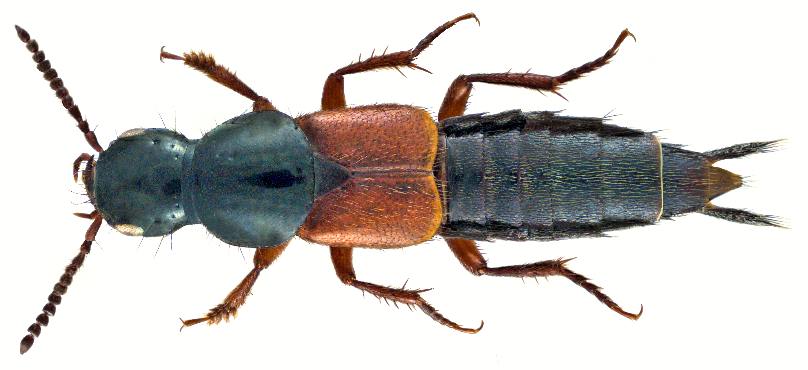 Family: Staphylinidae Size: 9,6 mm (8,0-11,0 mm) Origin: Europe, Caucasus Ecology: living in nests of small mammals Location: Germany, Bavaria, Upper Franconia, Selbitz leg.det. U.Schmidt, 15.X.1999 Photo: U.Schmidt, 2014